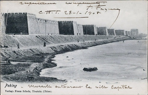 Old city walls of Beijing. Postcard sent in 1902 via the Chinese Imperial Post. Inscription: Peking (= Beijing); handwriting below image: Muraille entourant la veille capitale (= city walls around the old capital)